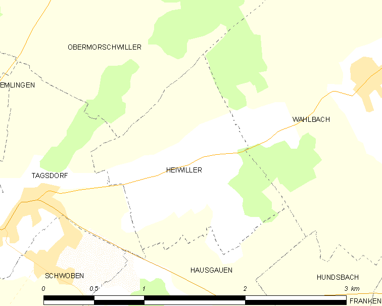 Map of French municipality